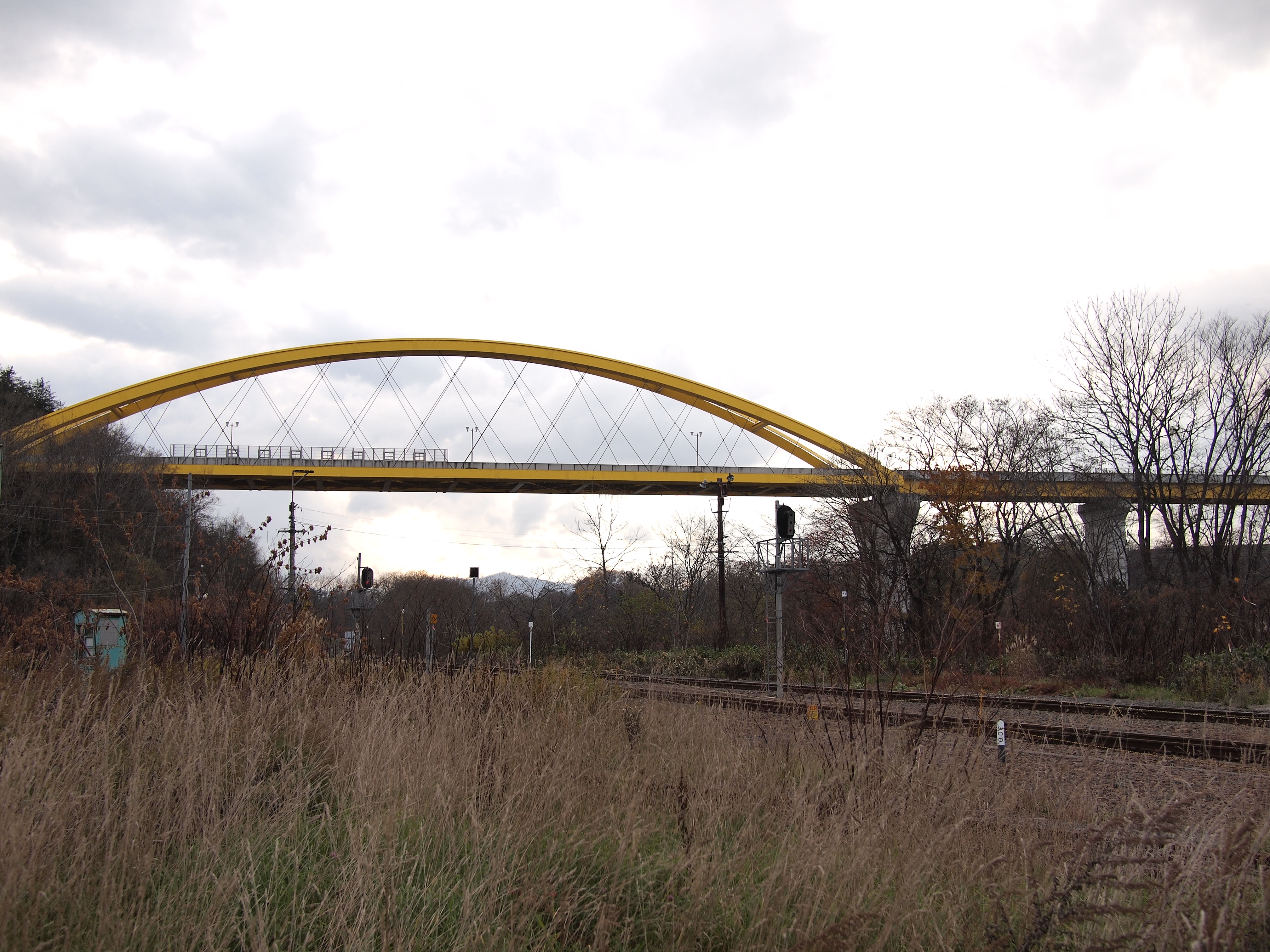 Niseko Ohashi bridge, Niseko, Hokkaido, Japan